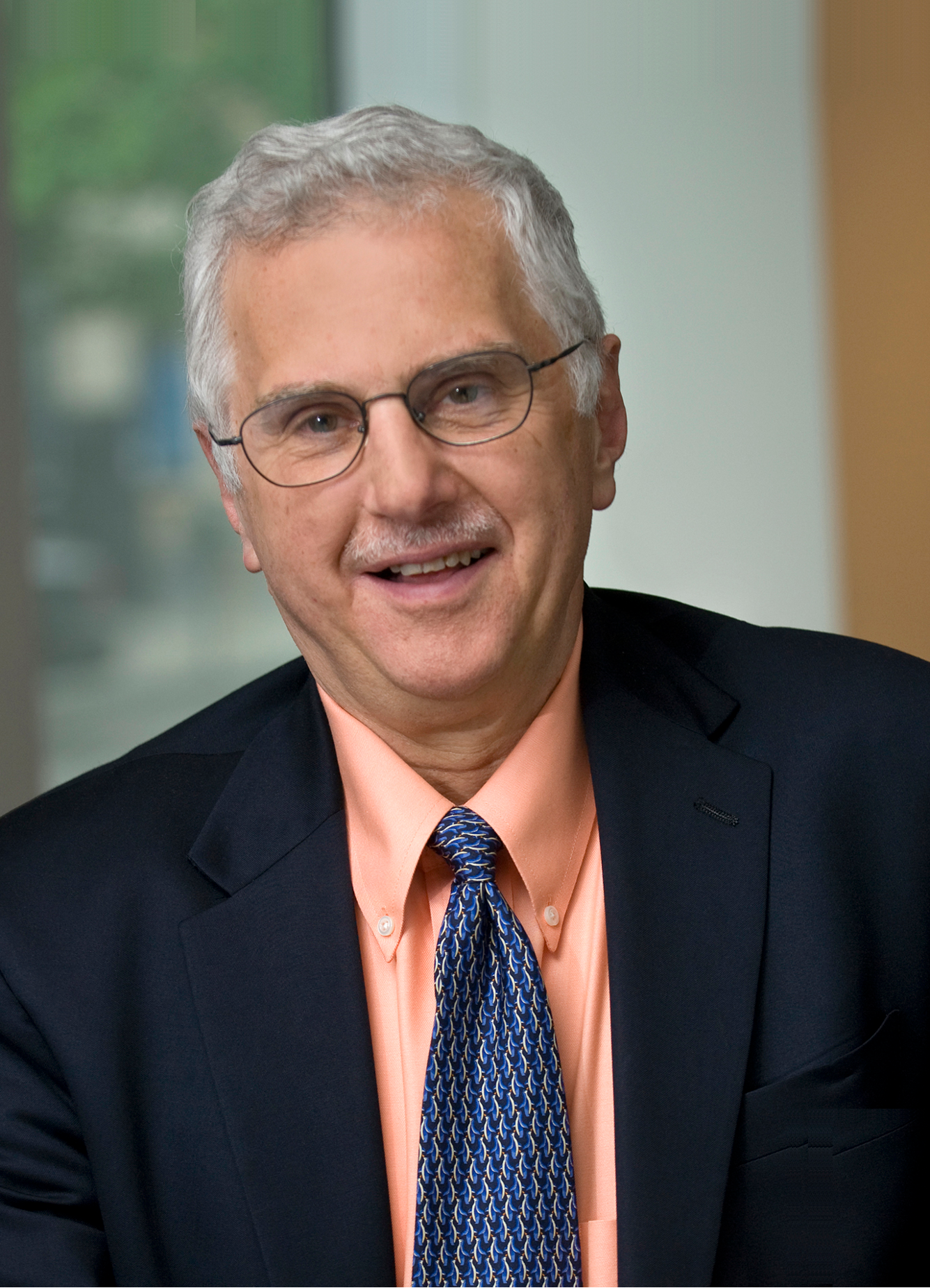 Photo of an American biochemist Bruce Alberts.